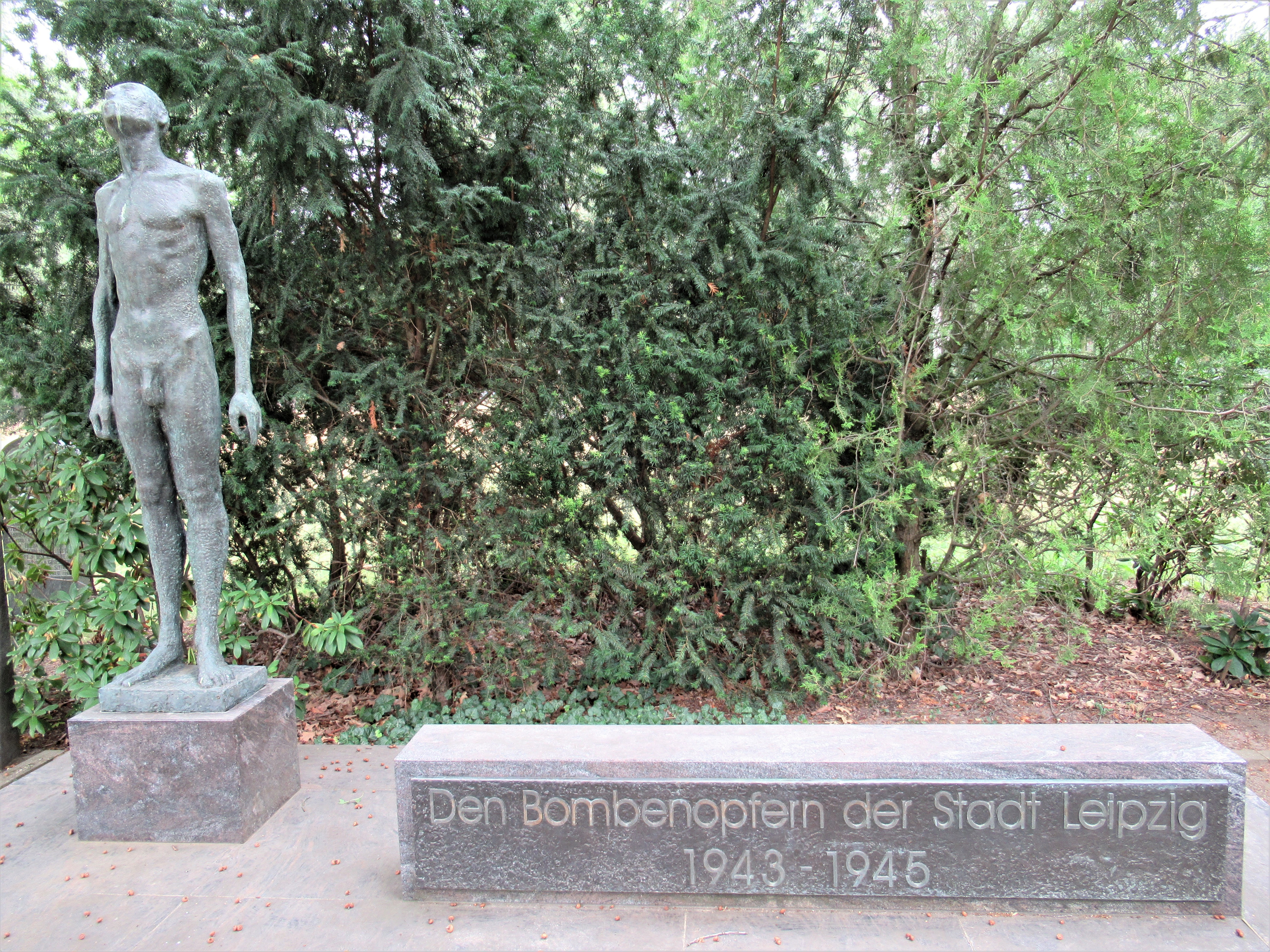 Leipzig Memorial for Bombing Victims 1943–1945